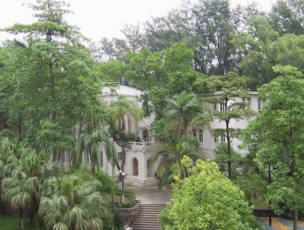 released under GDFL